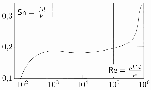 A graph of the dependence of Strouhal number on Reynolds number for a fluid flow past a cylinder